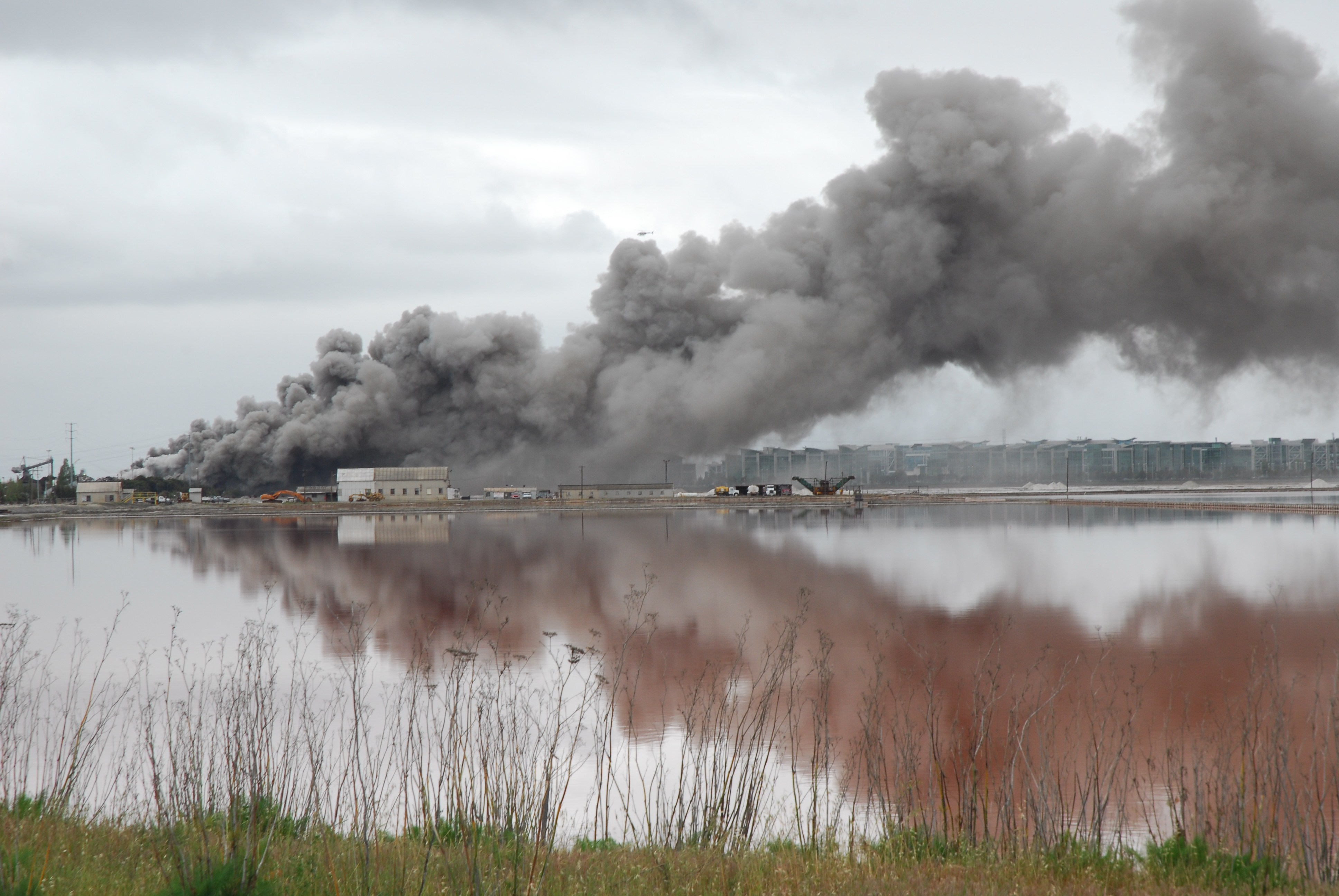 The metal recycling plant, Sims Metal Management, at the Port of Redwood City is on fire – it's been burning most of the day and smoke and fumes are reported as far south as San Jose.